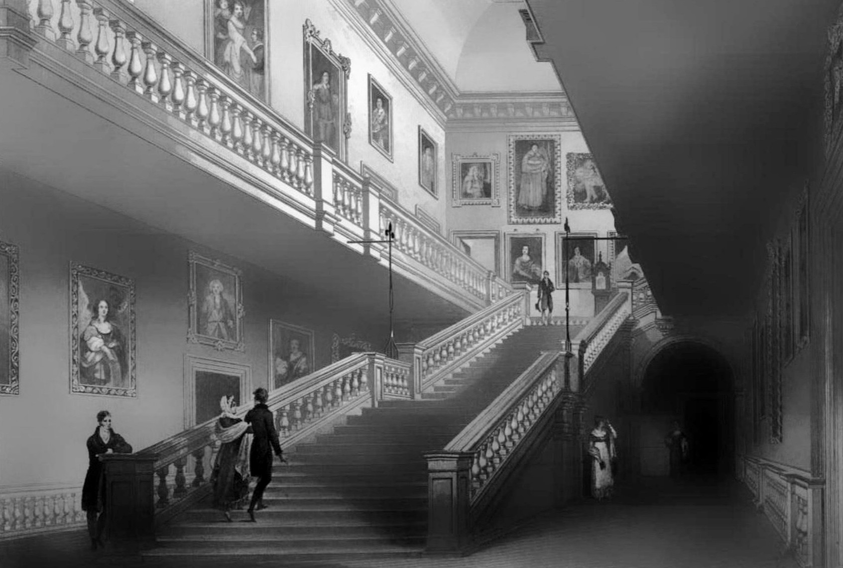 Illustration of The Stair Case at Althorp House.